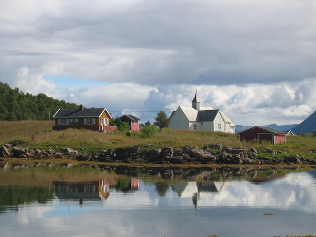 Øksnes kirke in Øksnes